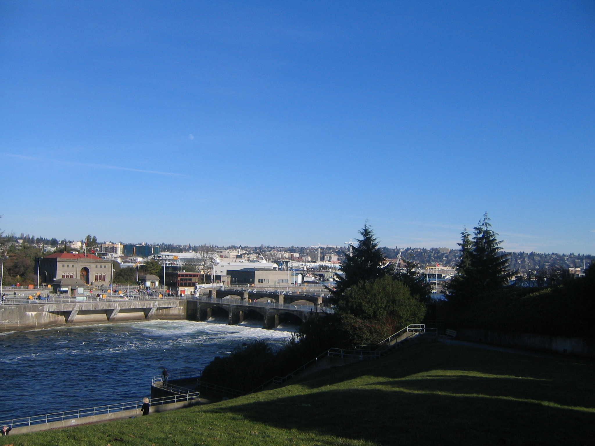 Commodore Park and the Ballard Locks